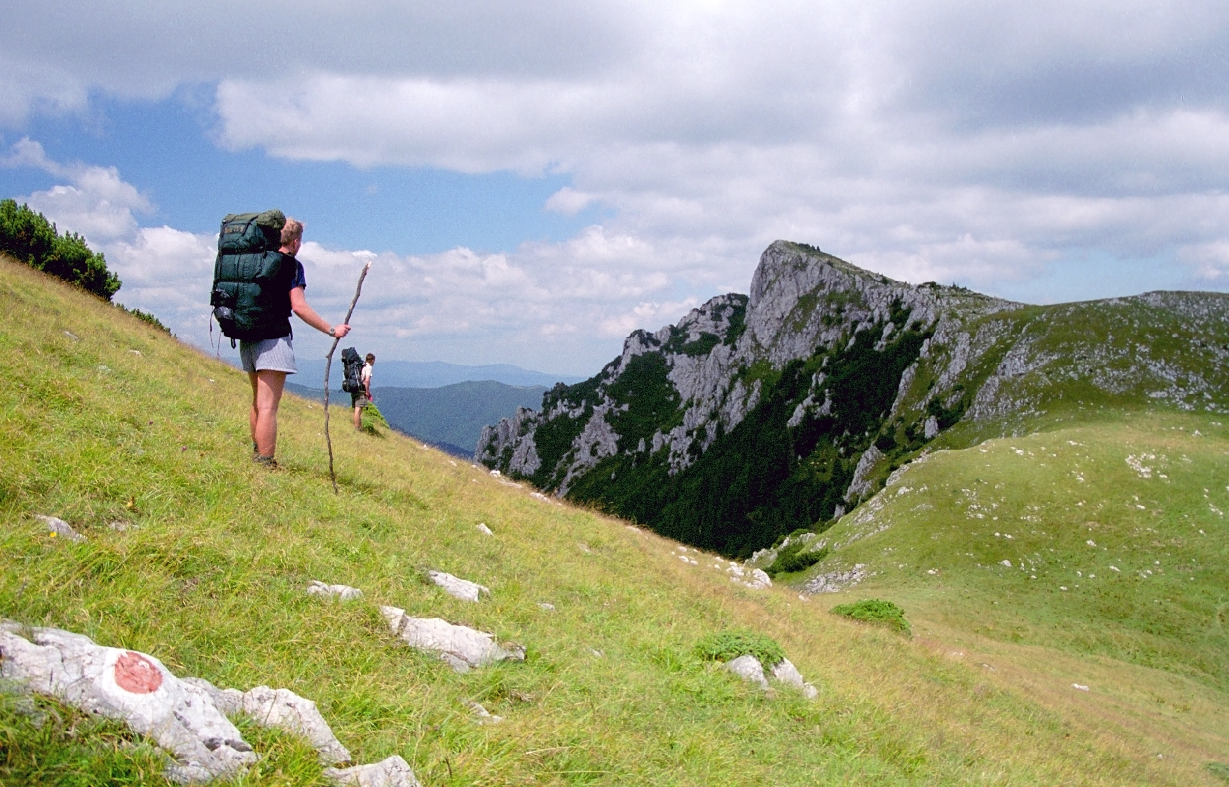 The Buila-Vânturarița National Park in Căpăţânii Mountains, Romania.